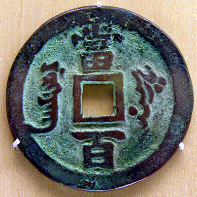 the reverse side of a chinese coin of Qing Dynasty, issued under the reigin of the Xianfeng Emperor, and issued in Yarkant, Xinjiang